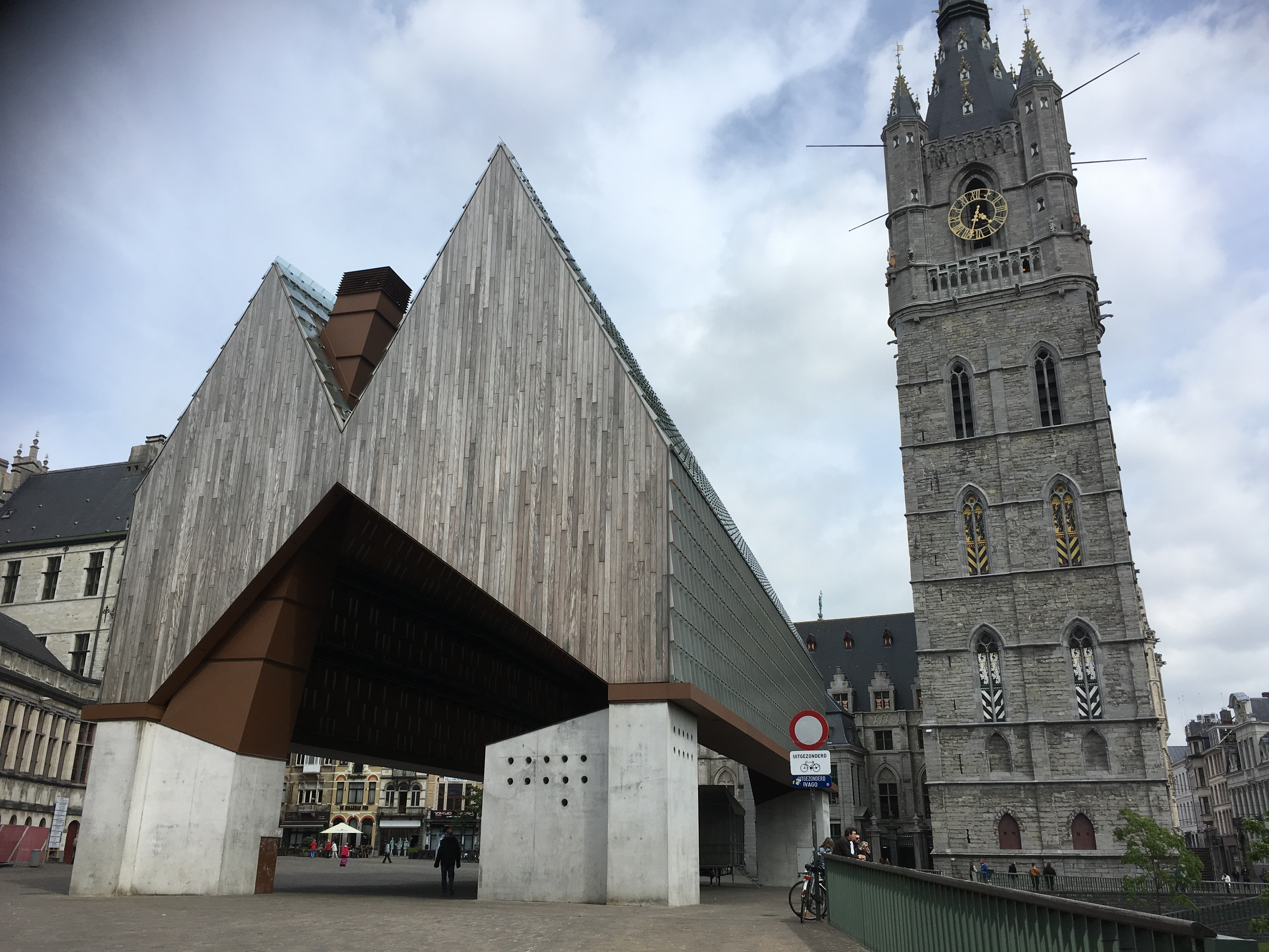 Stadshal and Belfort in Ghent, Belgium